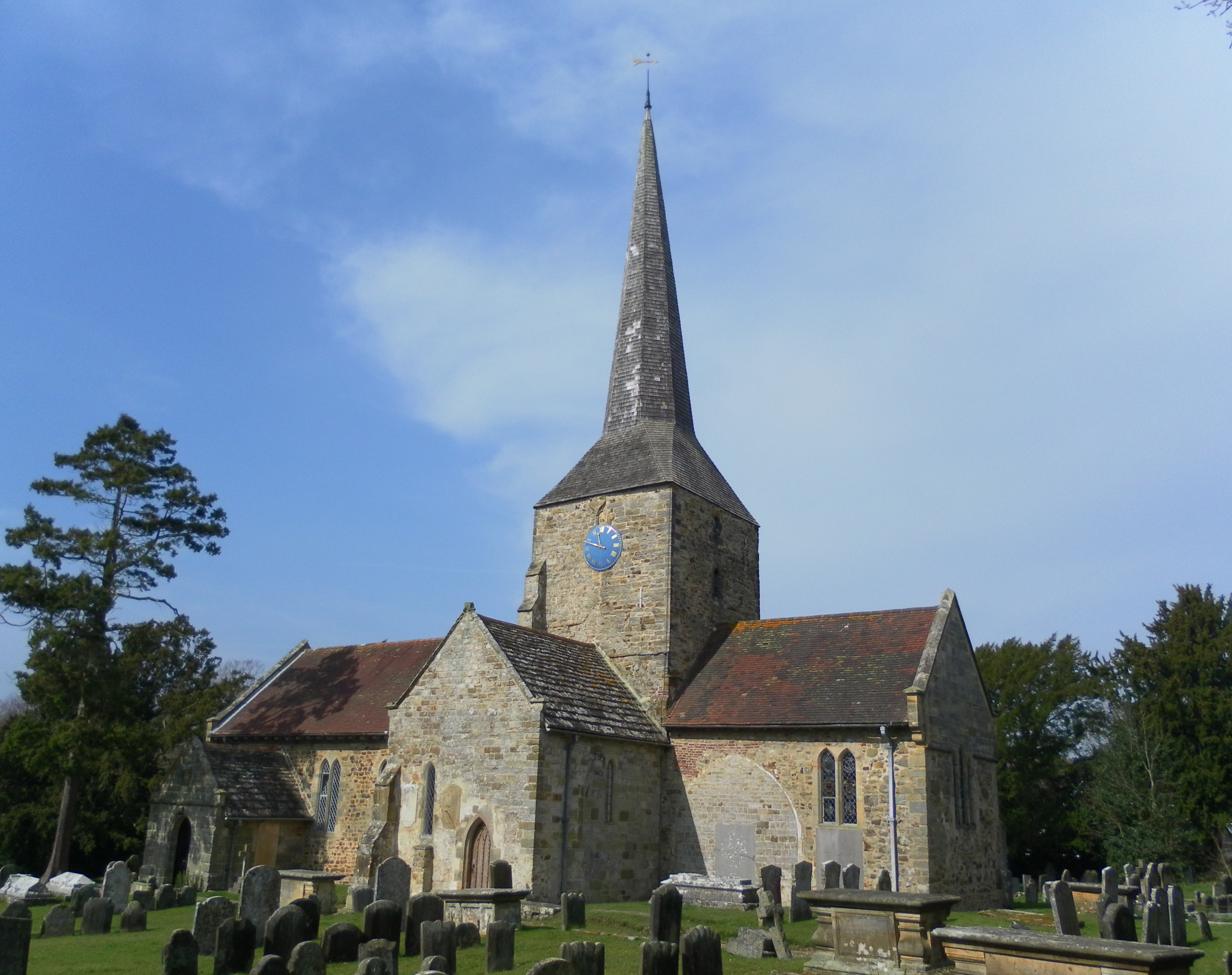 St Giles' parish church, Church Lane, Horsted Keynes, West Sussex, England, seen from the southeast